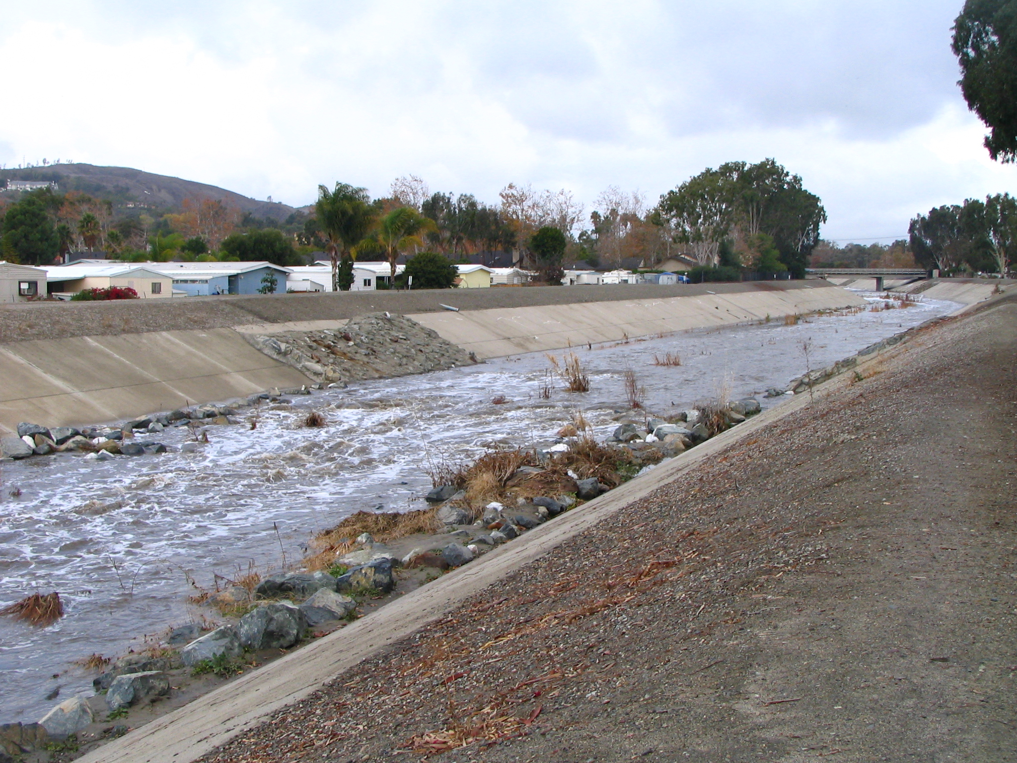 Drop structure on Trabuco Creek after a rain.